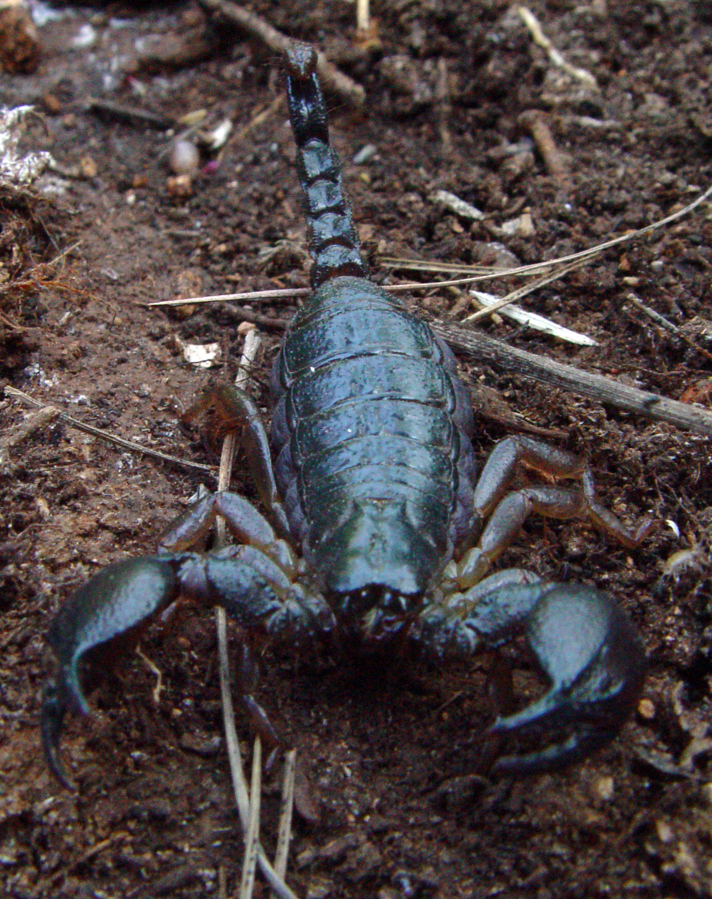 Scorpio maurus fuscus. Taken In Israel, By Guy Haimovitch